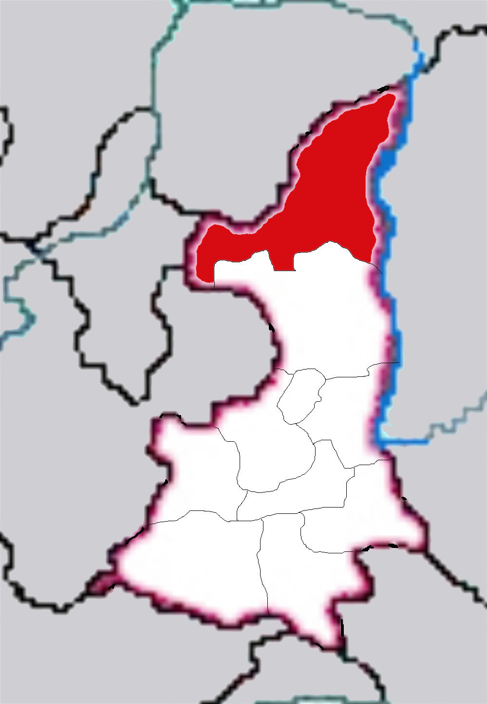 Maps of Shaanxi Province of China